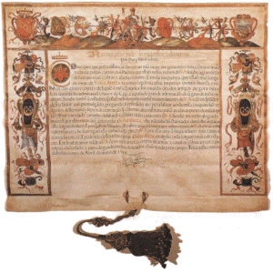 Letter from the viceroy of Portuguese India (ポルトガル国印度副王信書, Porutogaru-koku Indo-fukuō shinsho), from Duarte de Menezes, viceroy of Portuguese India, to daimyo Toyotomi Hideyoshi concerning the suppression of Christians in Japan. Dated to the Azuchi-Momoyama period, April 1588. Located at Myōhō-in (妙法院), Kyoto, Japan. The letter has been designated as National Treasure of Japan in the category "ancient documents".